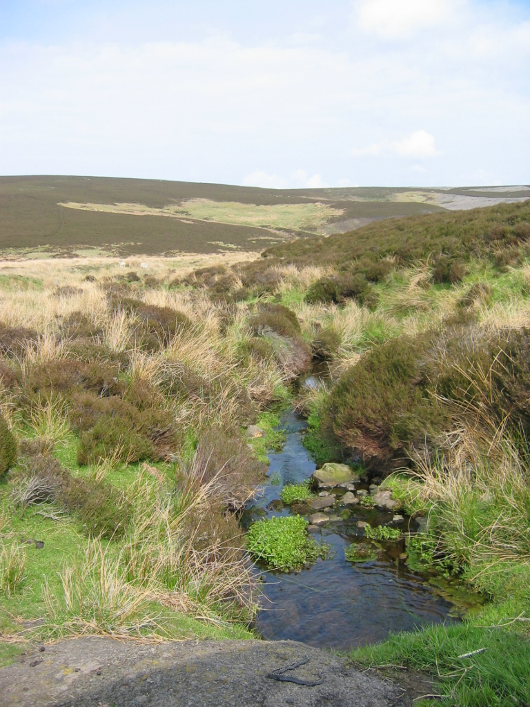 Lammermuir Hills, east Lothian, Scotland